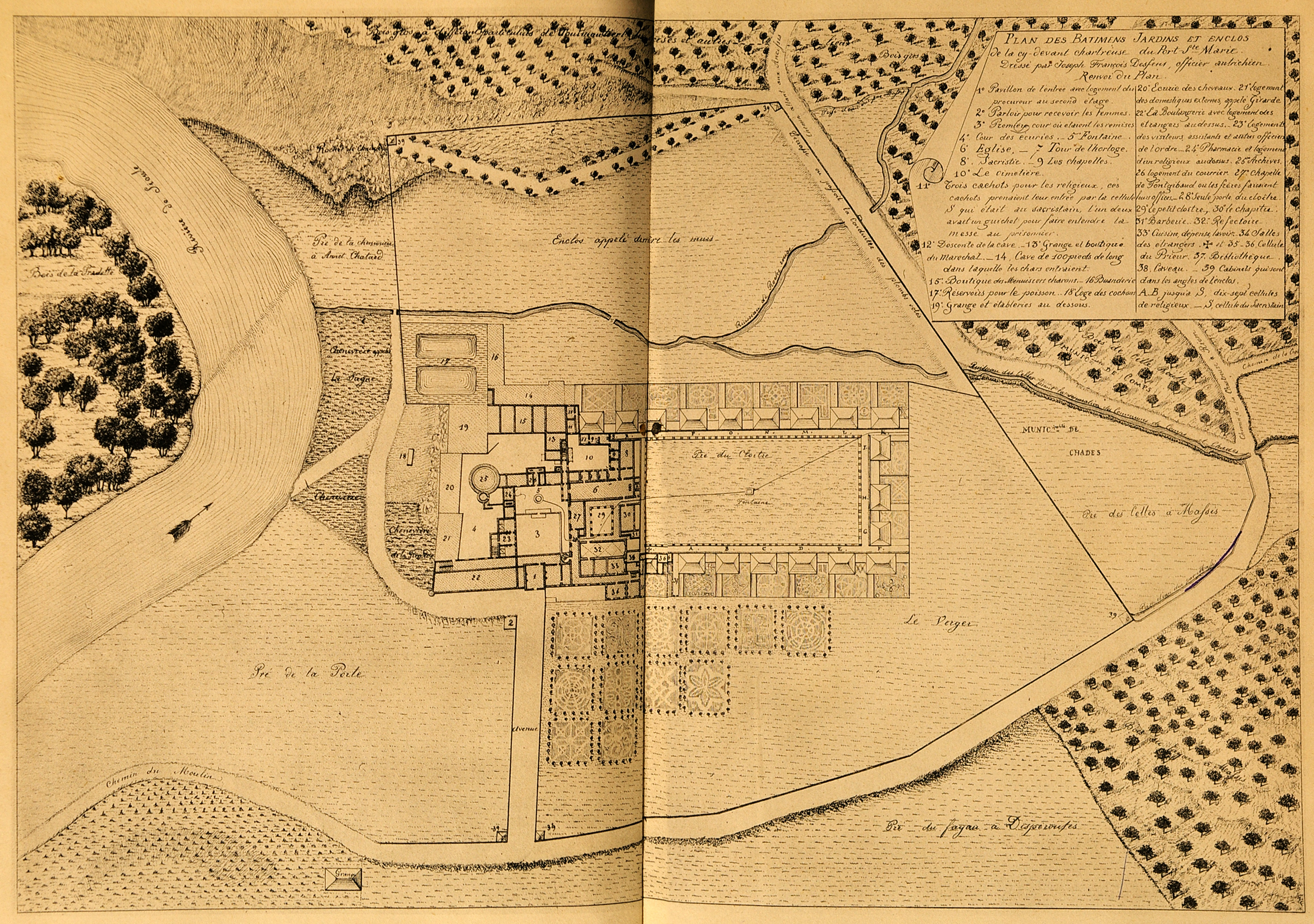 (Map of Chartreuse du Port-Sainte-Marie - Auvergne - Extract of "La Chartreuse du Port-Sainte-Marie" by the Abbot Mioche - 1896